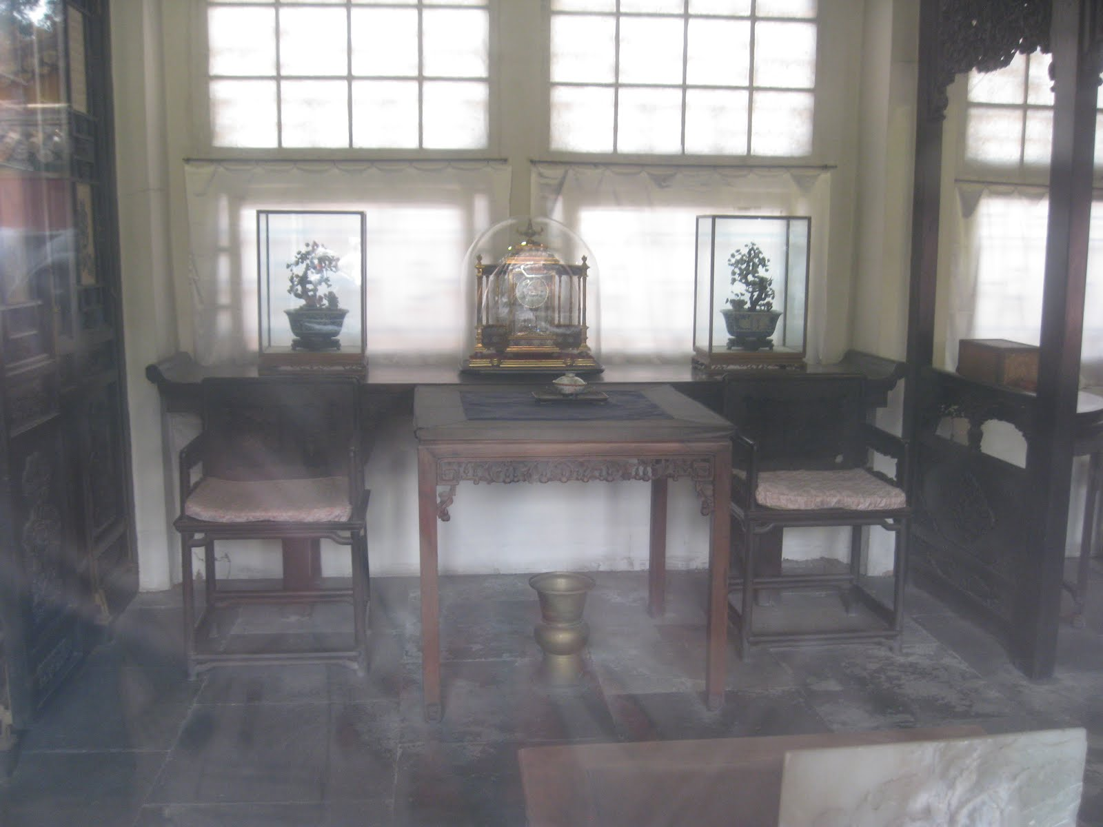 Forbidden City